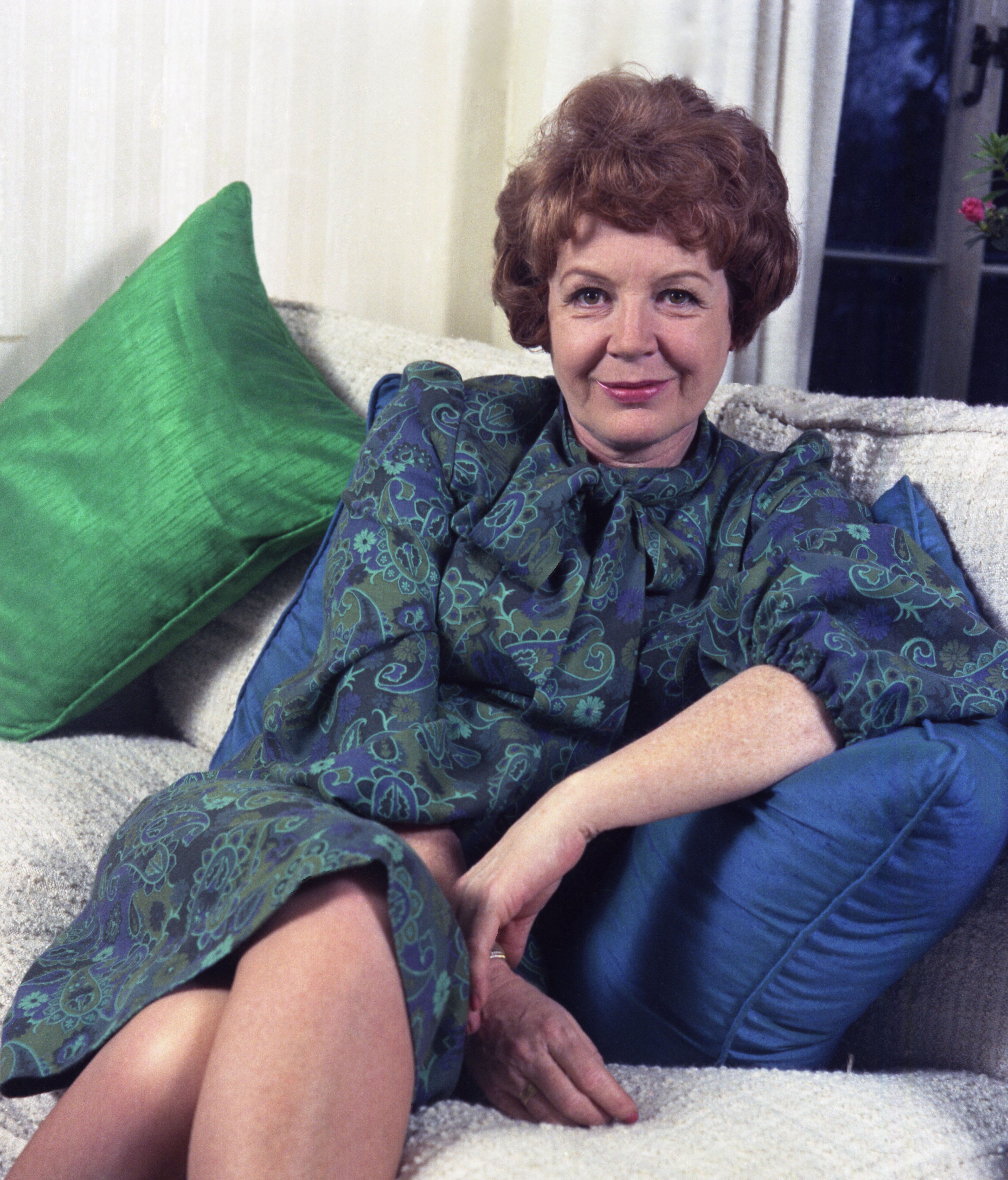 Phyllis Calvert at home in Putney, London